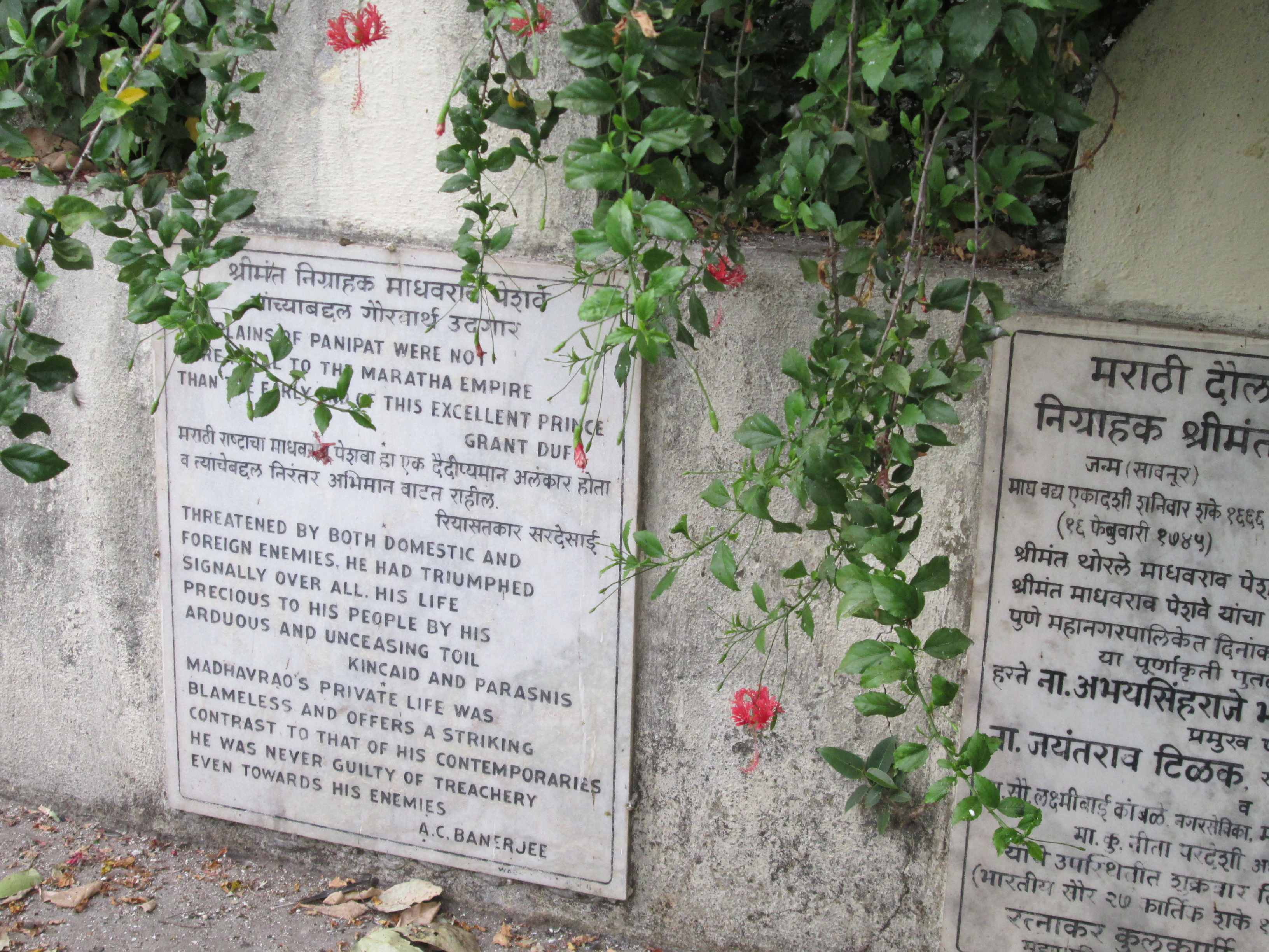 An information plaque commemorating H.H. Madhavrao Ballal Peshwa. A memorial commemorating Shrimant Madhavrao Peshwa is located at Peshwe Park in Pune, India